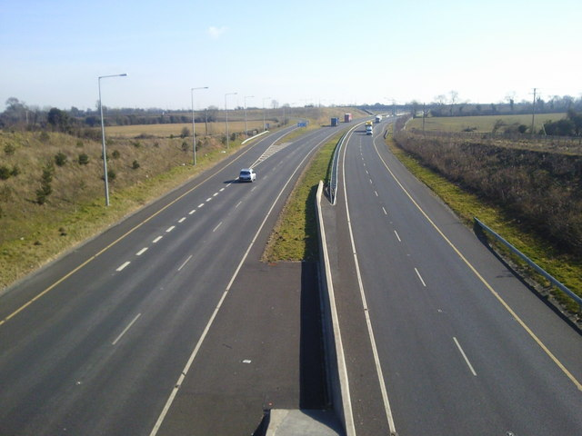 M2 Motorway, near Ashbourne, Co Meath Offramp to Ashbourne, Swords and Ratoath on the left of the picture.